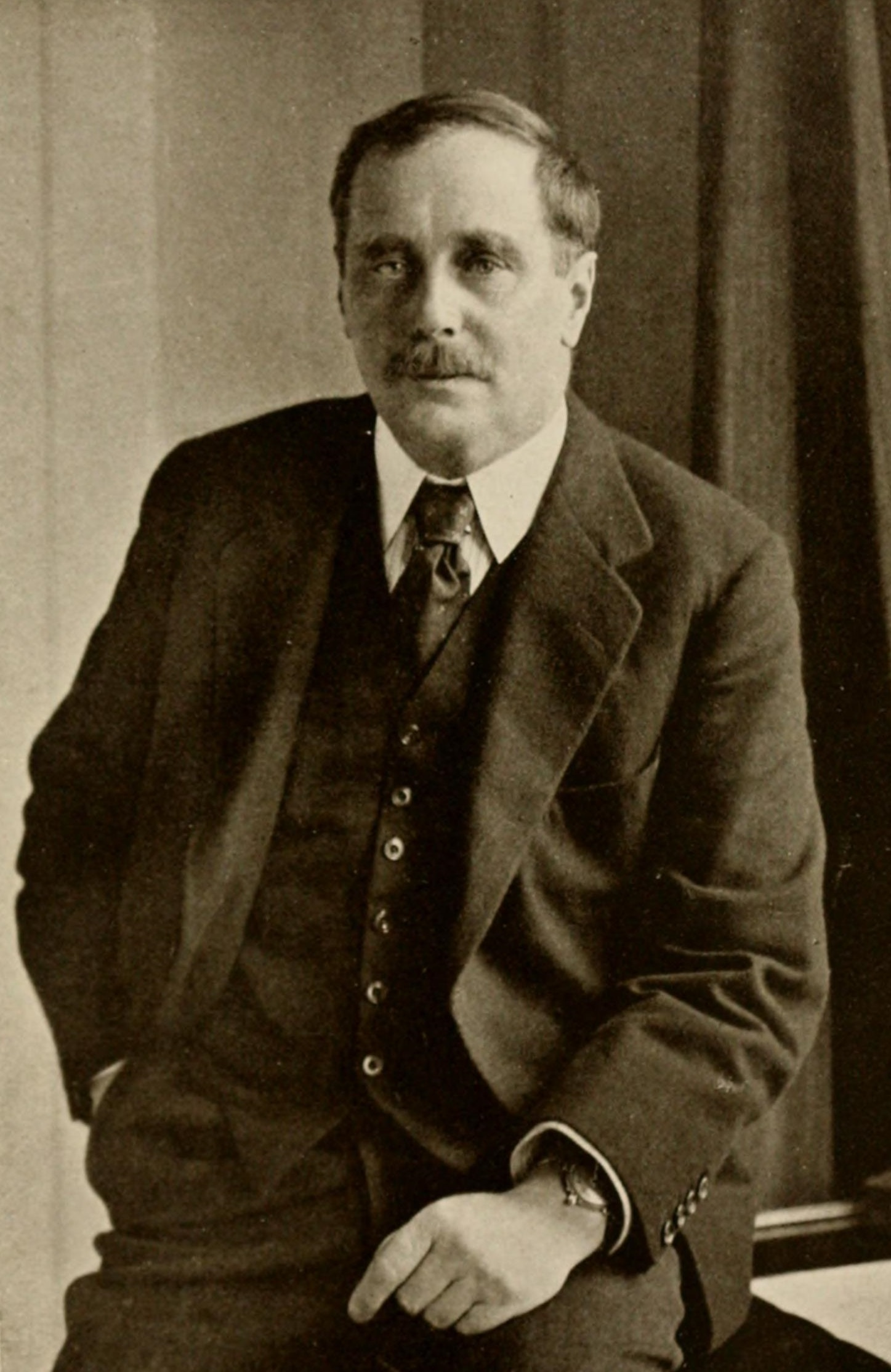 Portrait of H. G. Wells